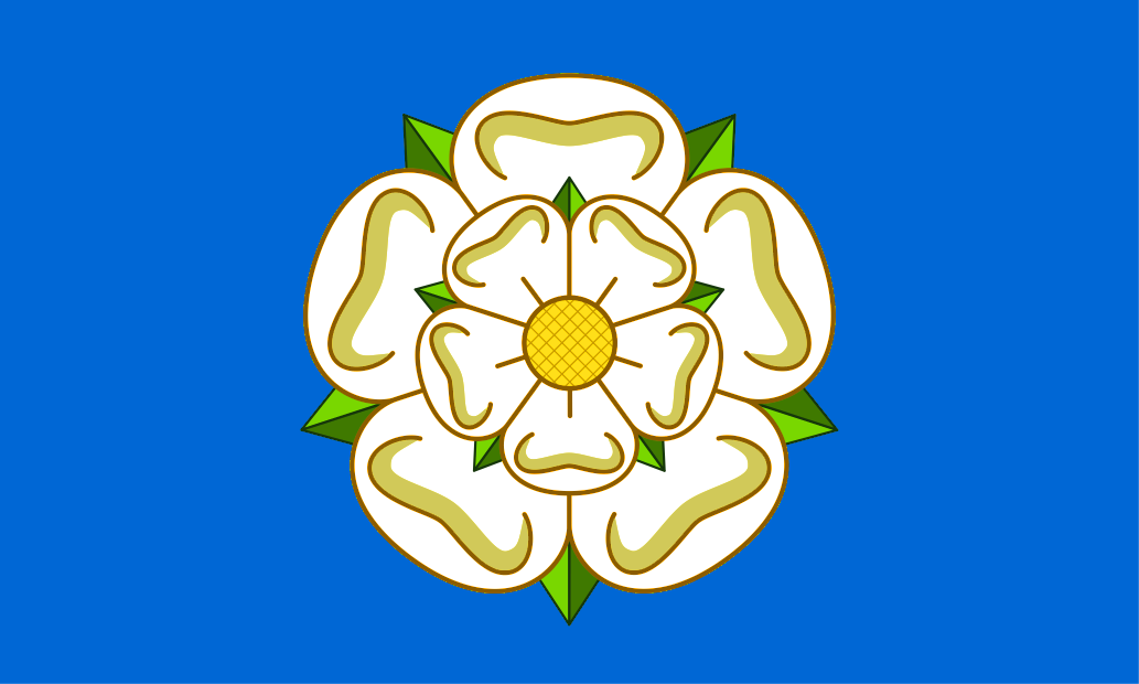 Flag of Yorkshire